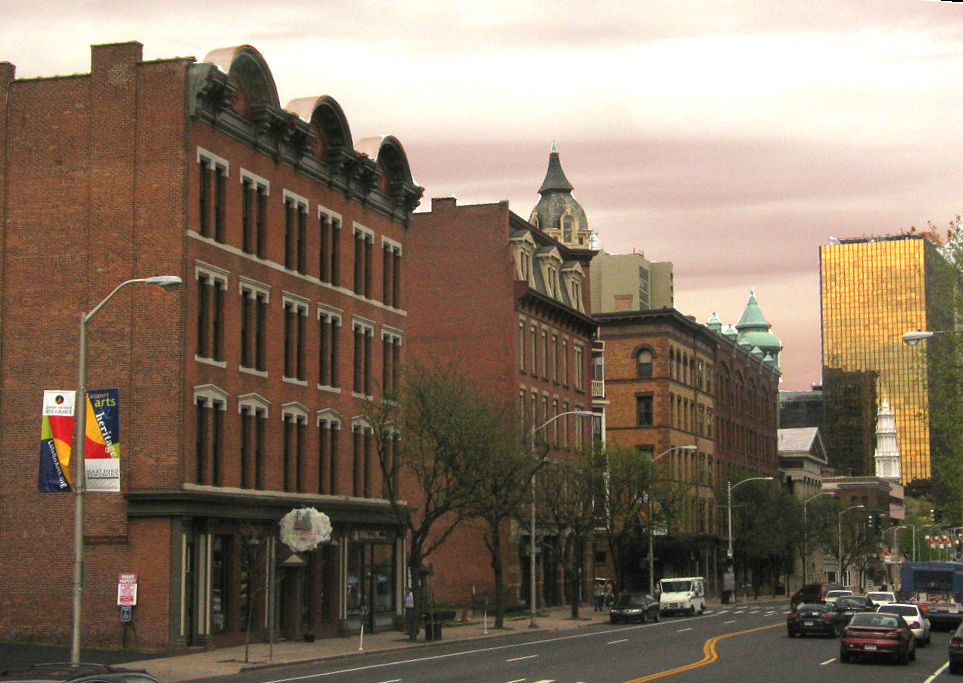 Main Street in Hartford, Connecticut, looking north. The nearest four buildings form the eastern boundary of the Buckingham Square Historic District.